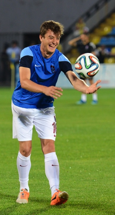 Batuhan Atarslan Playing of Trabzonspor